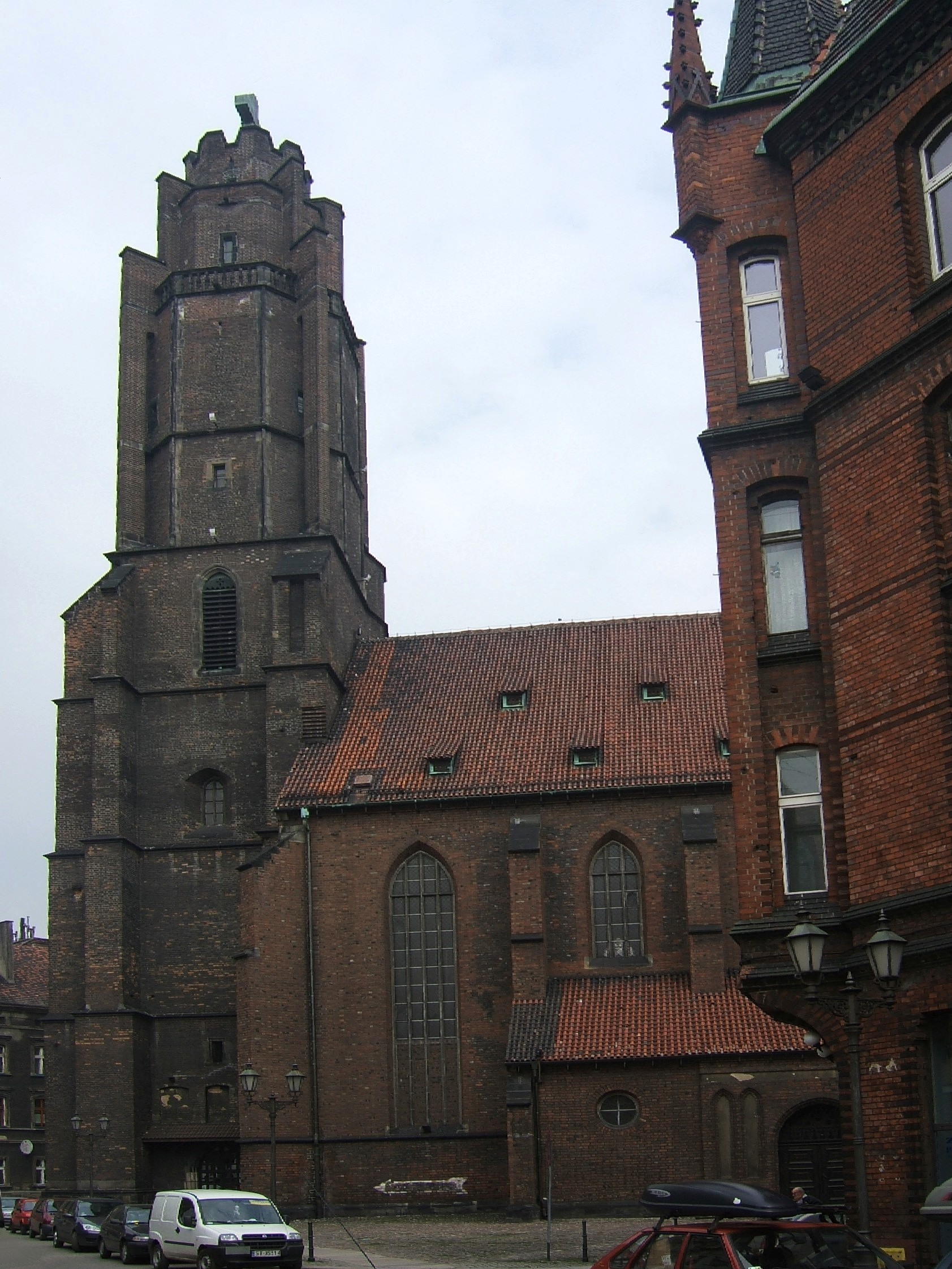 The tower of Gliwice's All Saints church (14th century), seen from ul. Raciborska.